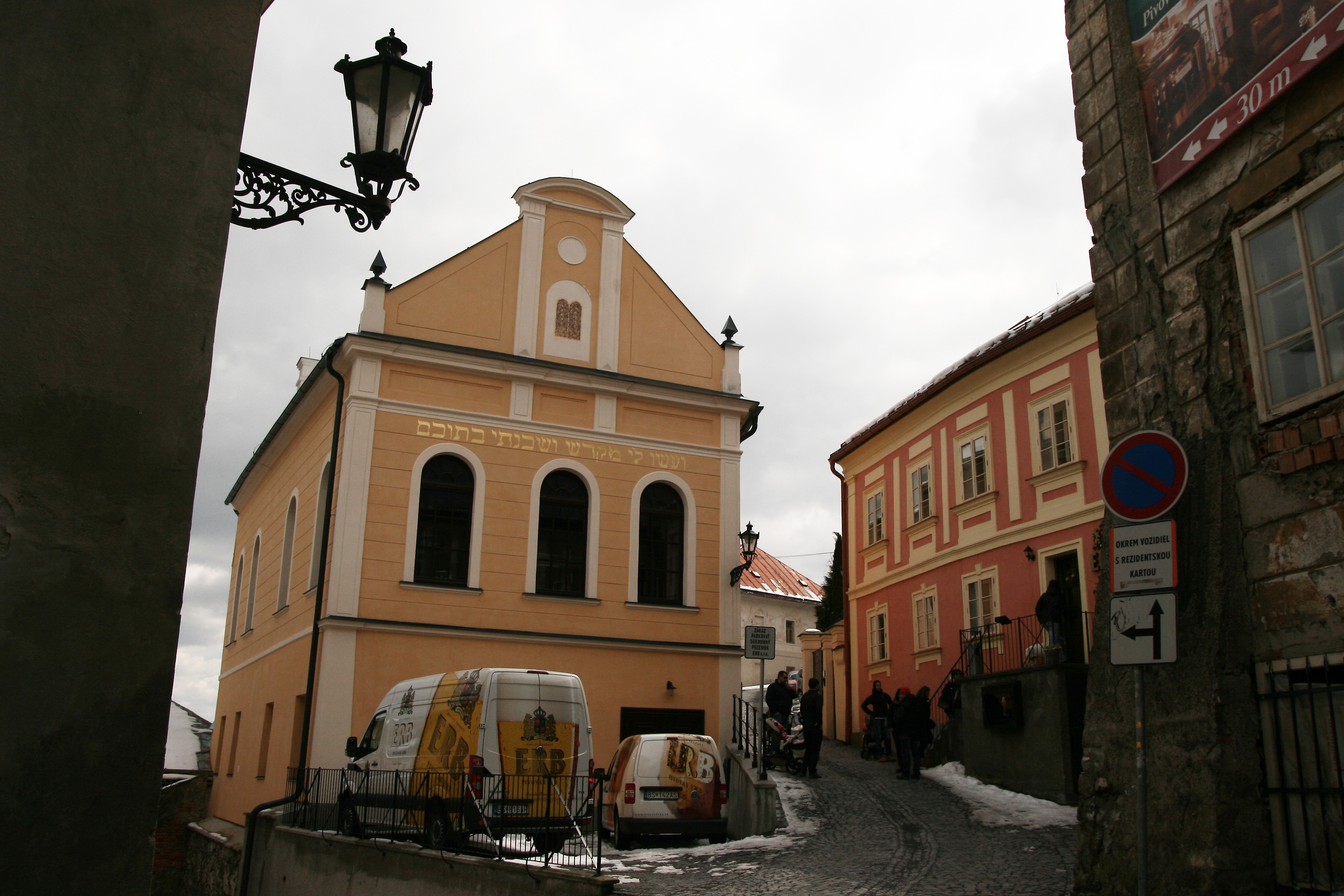 Synagogue in Banská Štiavnica, Slovakia. Built in 1893.